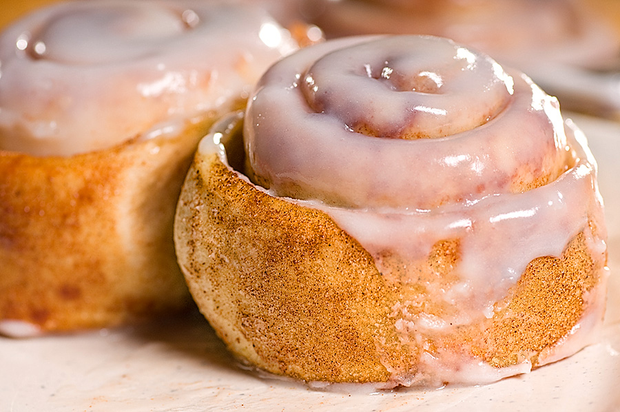 Johns Inc Cinnamon_Rolls